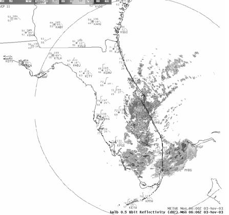 Radar image of the remnants of Nicholas hitting Florida on November 3, 2003